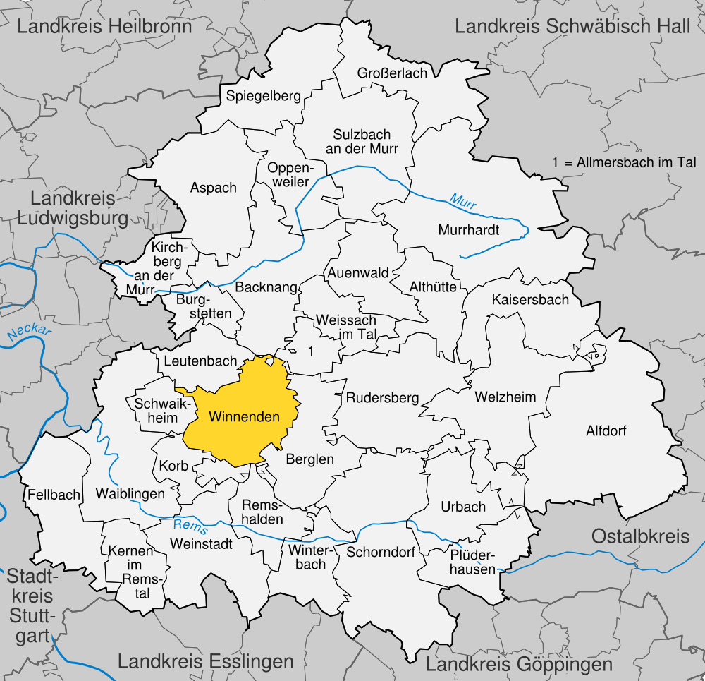 position of Winnenden within the Rems-Murr-Kreis, Baden-Württemberg, Germany